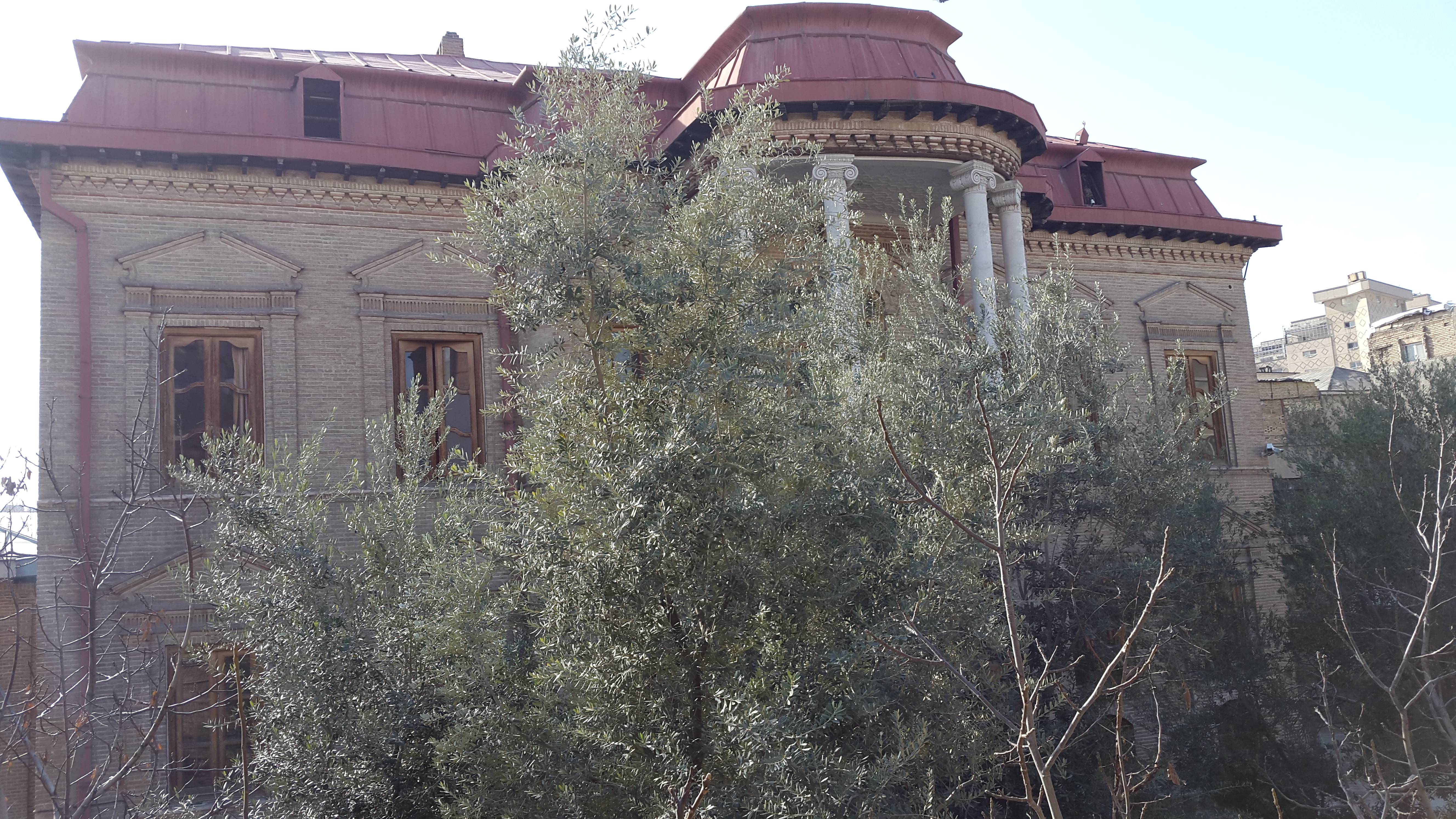 Pirnia (Moshir ol dowleh) House built in 1910, City Art Center in 2014